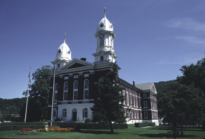 Front of the Venango County Courthouse, located at the intersection of Twelfth and Liberty Streets in Franklin, Pennsylvania, United States. Built in 1868, it is part of the Franklin Historic District, which is listed on the National Register of Historic Places.